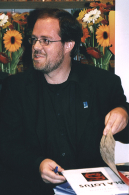 Bjorn Wahlberg at the Book Fair in 2005.